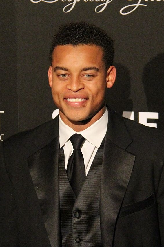 Robert Ri'chard ("The Vampire Diaries") at Redlight Traffic's inaugural Dignity Gala (Michelle Tiu / Neon Tommy)